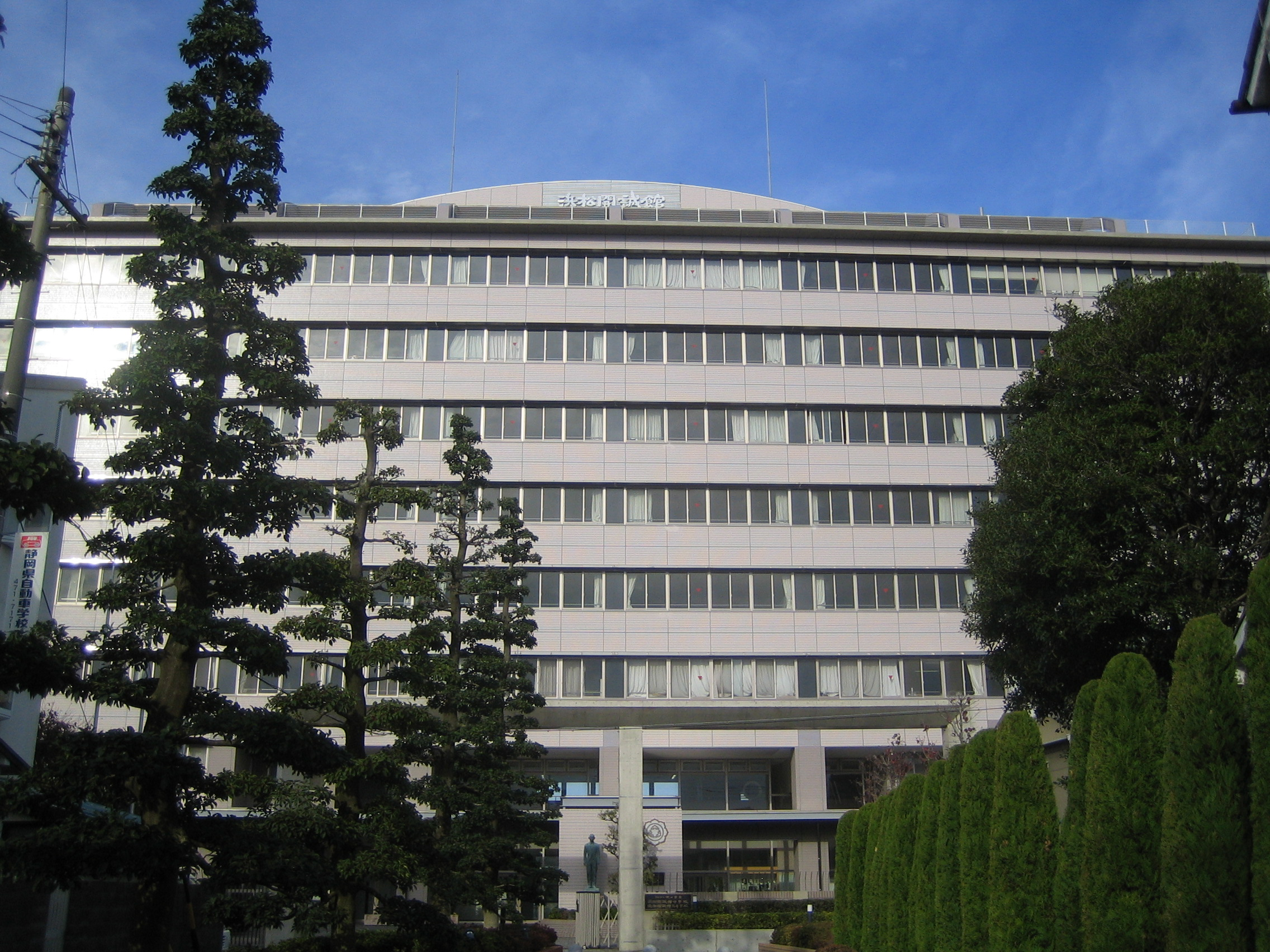 Hamamatsu Kaiseikan Junior and Senior High School (浜松開誠館中学校・高等学校), in Hamamatsu, Shizuoka, Japan